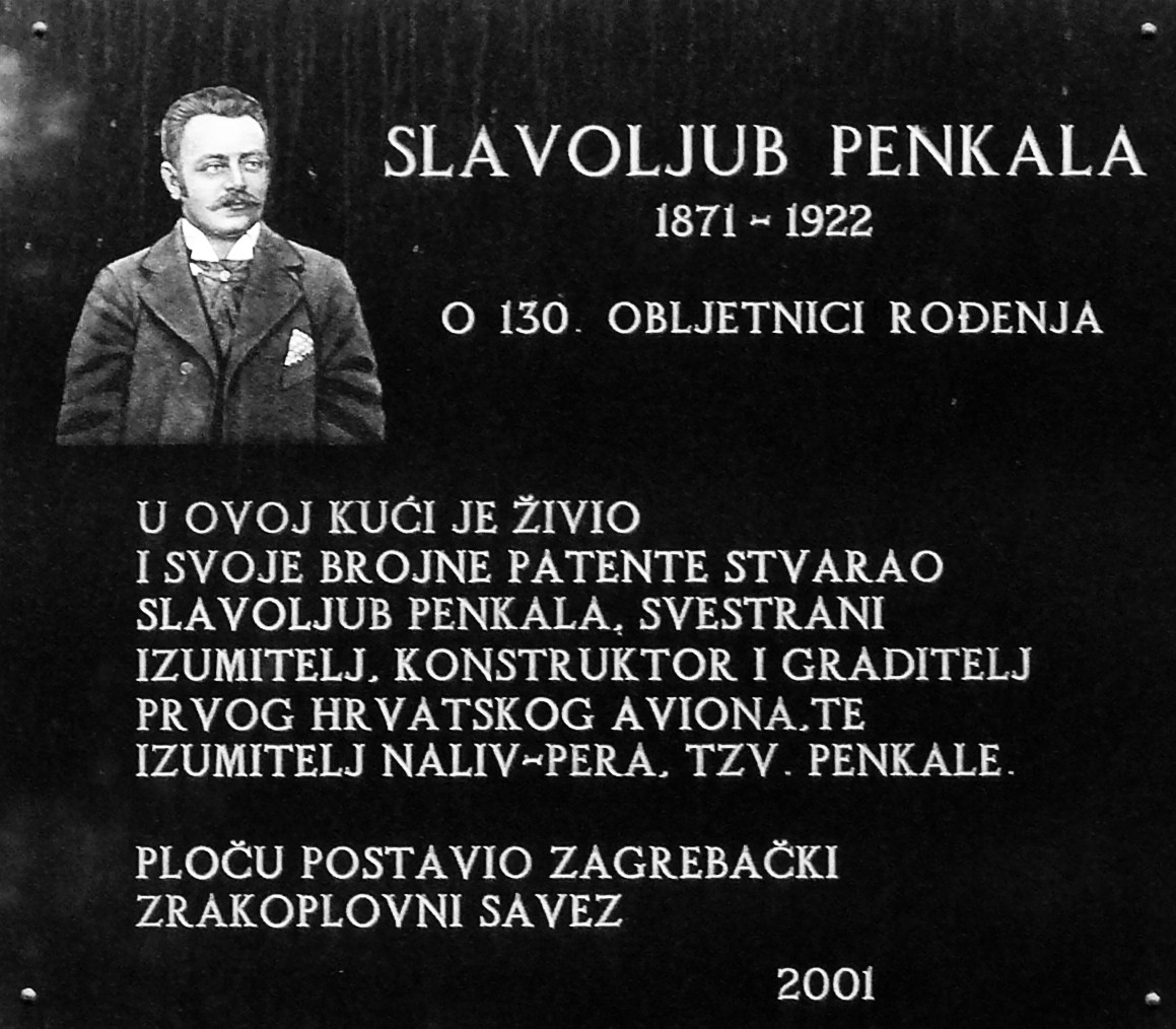 Penkala-House, Zagreb.